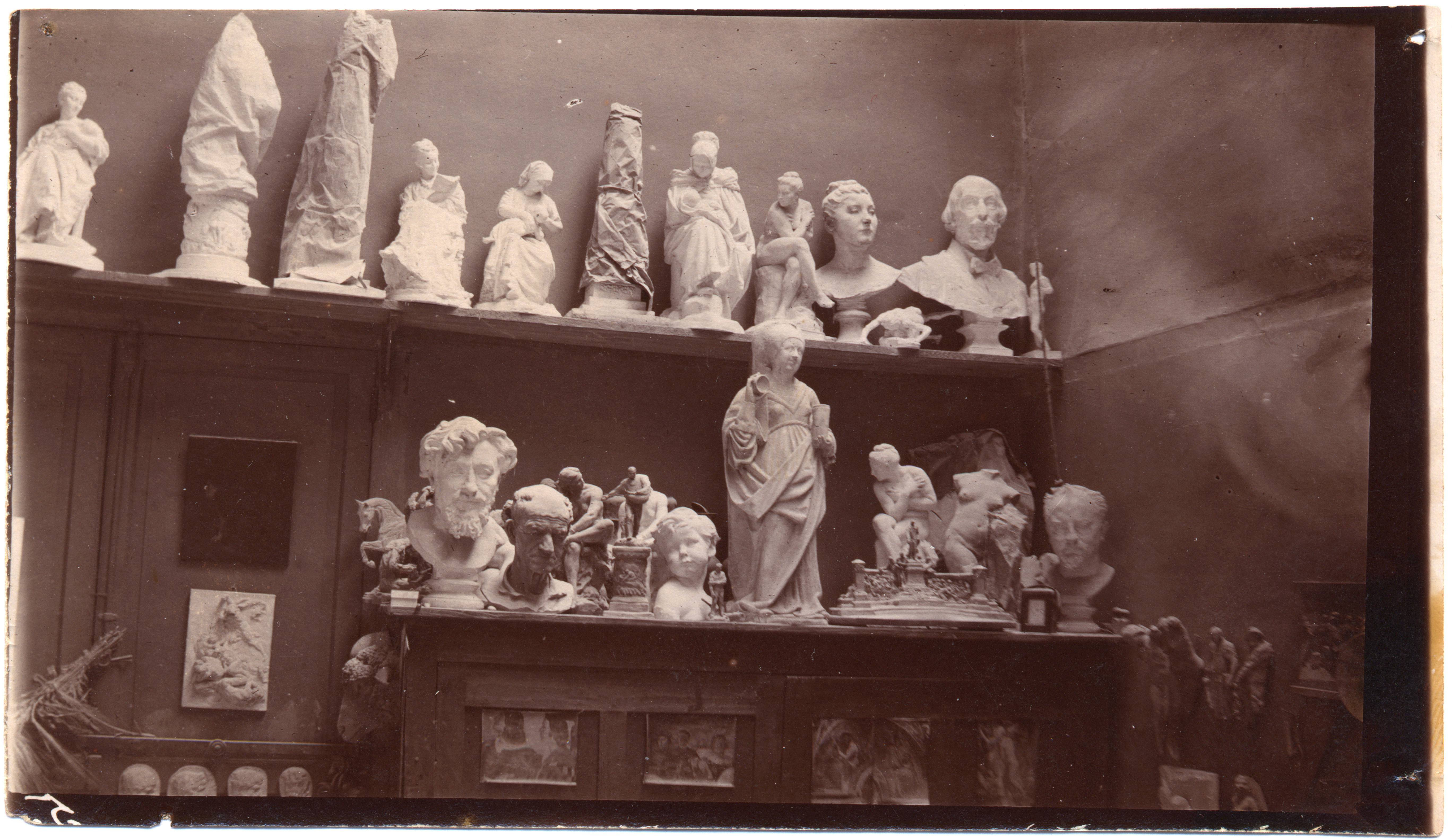 Photograph of the Jules Dalou's studio at impasse du Maine in Paris, circa 1902 - 1905. Note : the plaster cast of the St. Mary Magdalene statue in the center of the desk is not a Dalou's artwork.